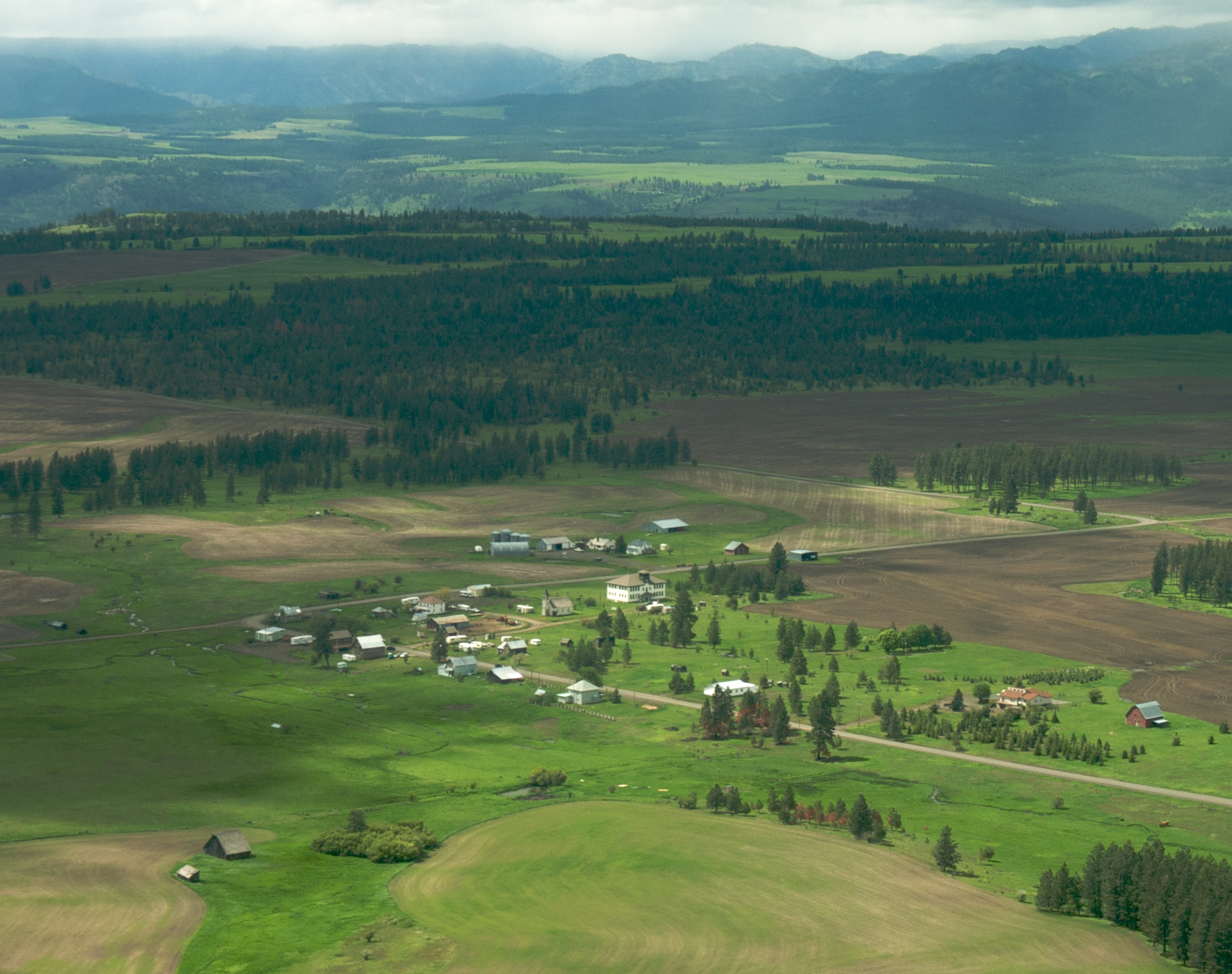 Aerial view of Flora, Oregon, USA